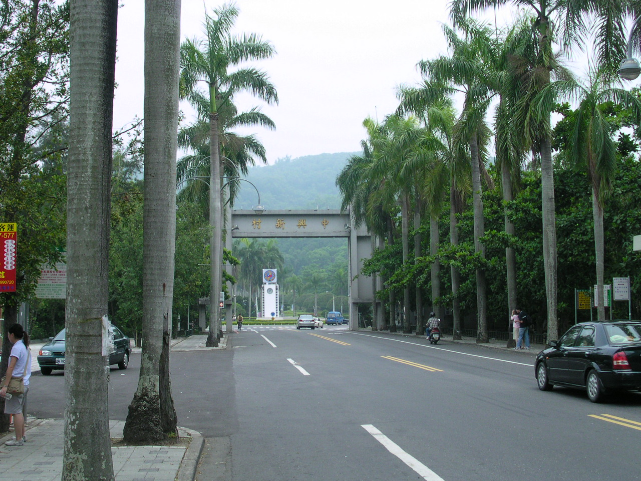 The paifang(牌樓) of the JhongSing Village in Nantou County, Taiwan